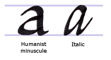 The lowercase Roman "a" in Humanist minuscule and Italic calligraphic scripts. Drawn, digitised, and uploaded by me, StradivariusTV, on 25 August 2006.